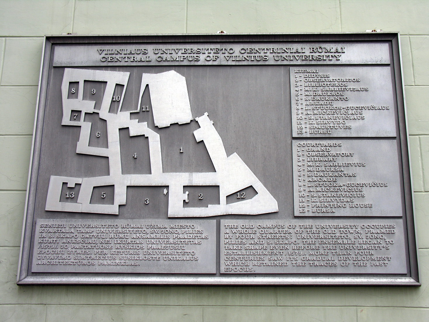 Scheme of Central Campus of Vilnius University